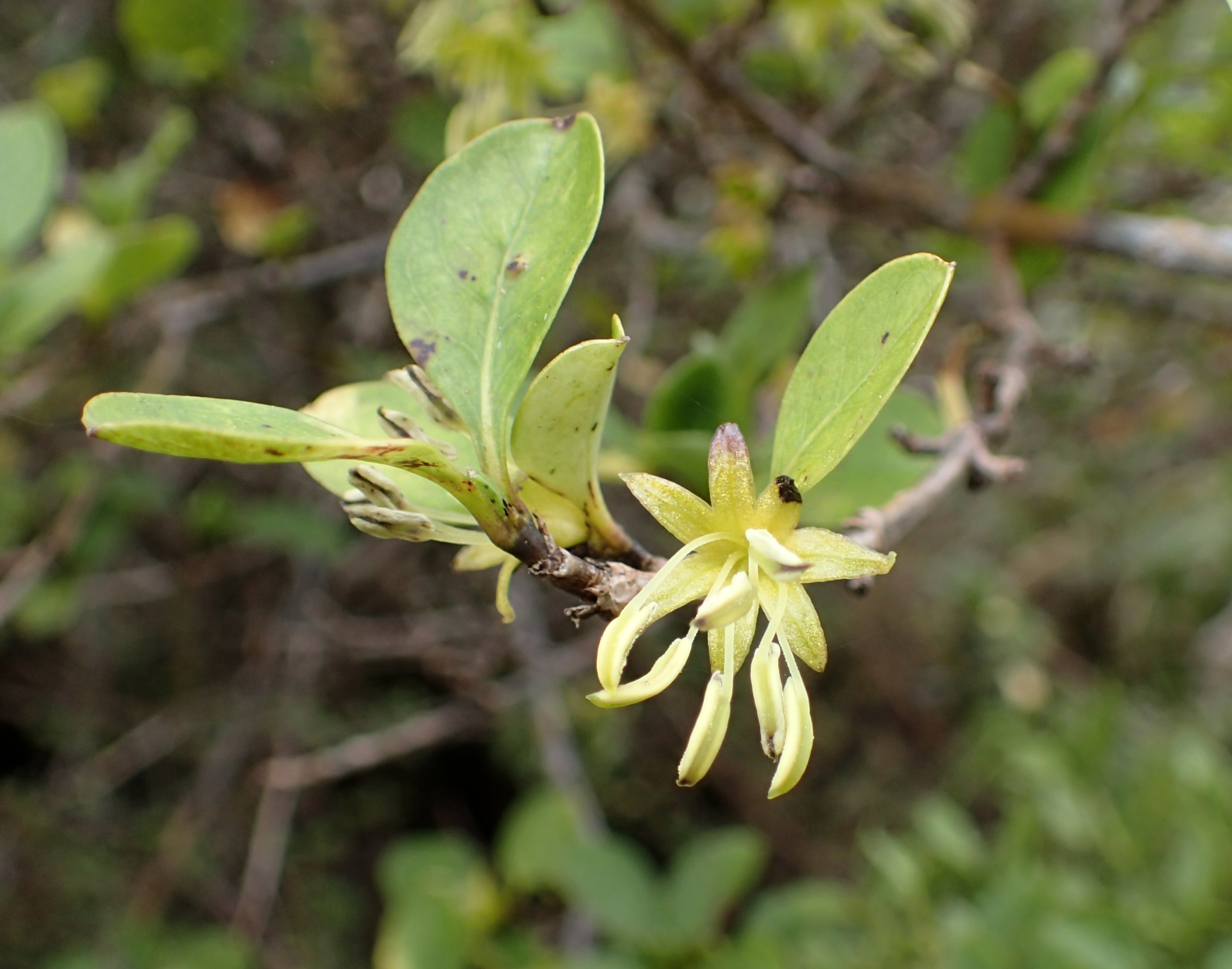 Coprosma foetidissima in Whakapapa, Waikato (New Zealand)